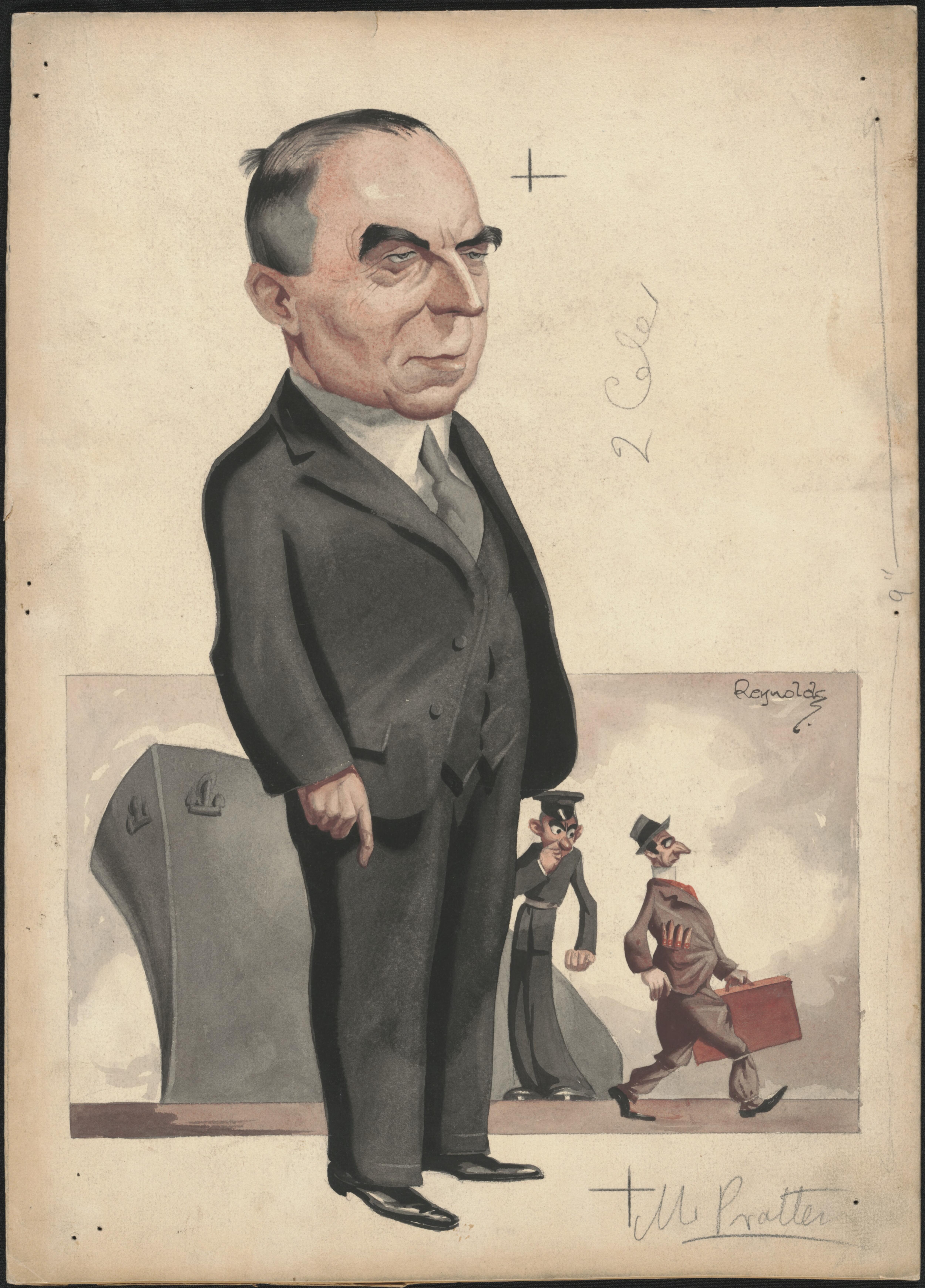 Caricature of Australian politician Herbert Pratten